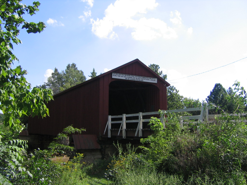 Red Covered Bridge and its approach with white guardrails at Big Bureau Creek north of Princeton in Bureau County, Illinois